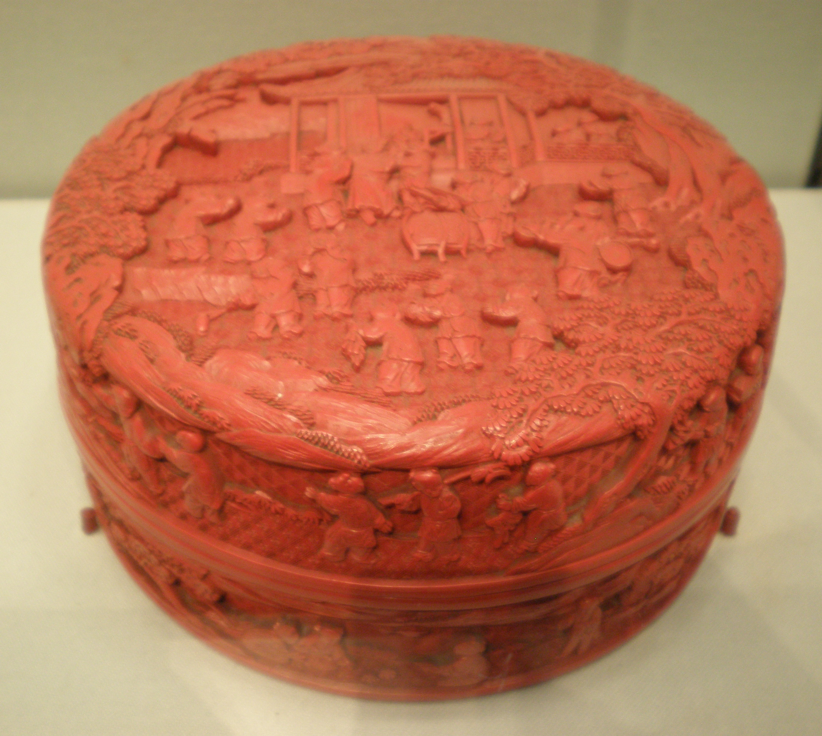 Lacquered wooden cylindrical box with boys at play, approx. 1700-1800, Qing Dynasty. On display at the Asian Art Museum in San Francisco, California. B60M406